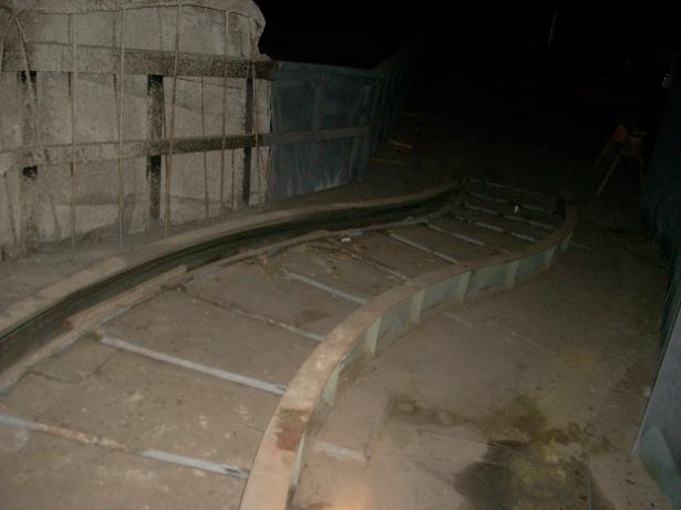 Section of track no longer used.